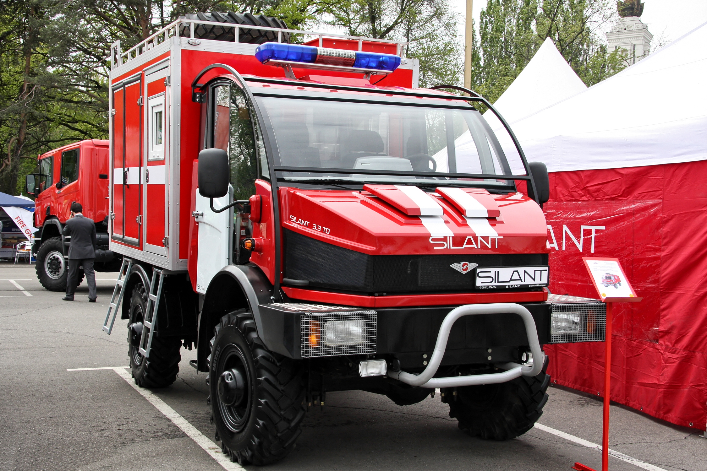 Silant 3.3TD truck at ISSE 2011.